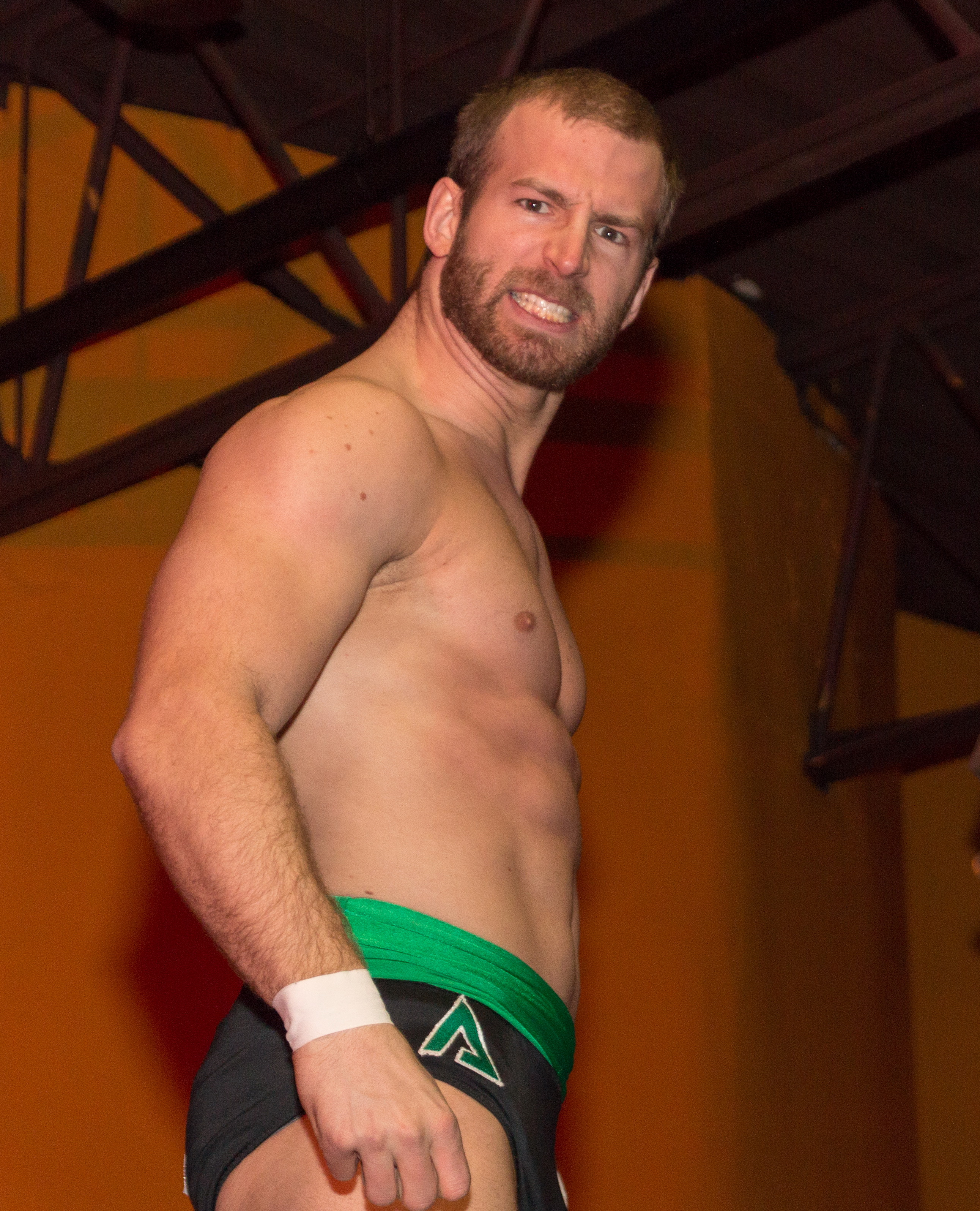 Independent wrestler Stu Dos (alternately known as Player Dos or Stupefied) making his ring entrance at Smash Wrestling's Danger Zone in Toronto, ON